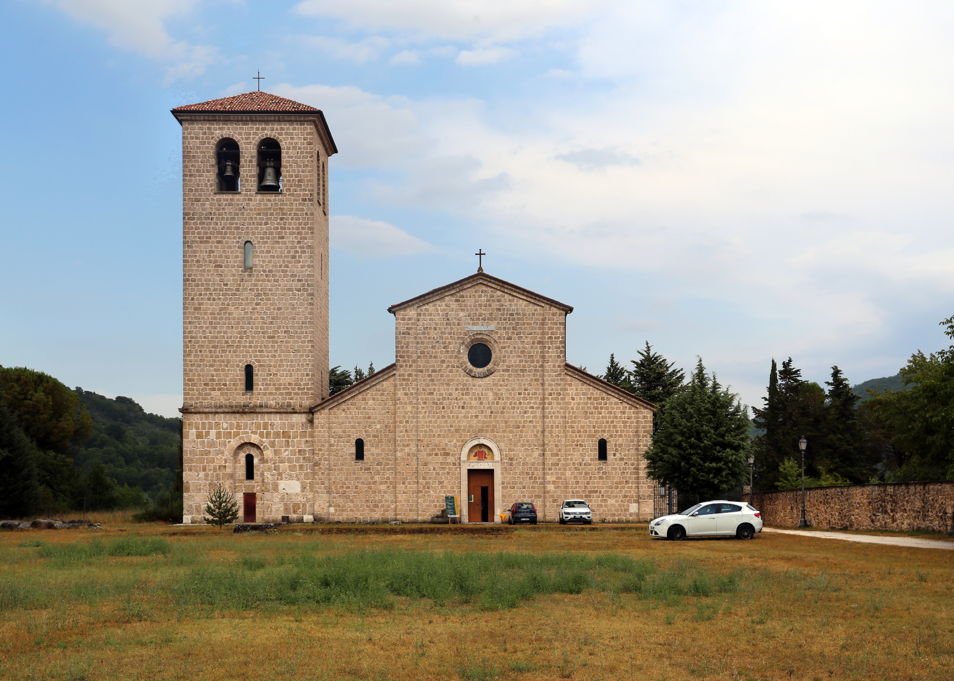 San Vincenzo al Volturno